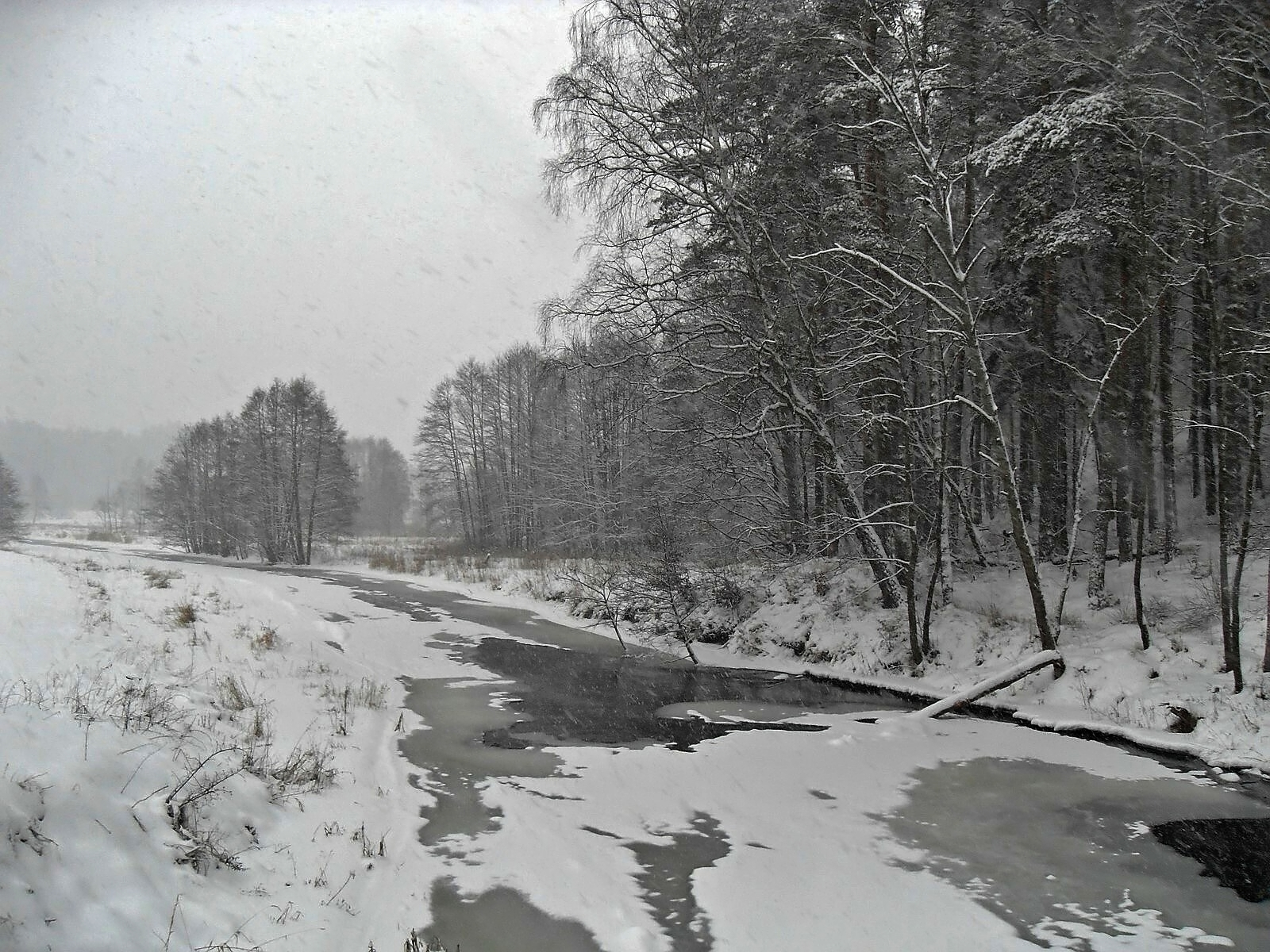 Wda River in winter 2011